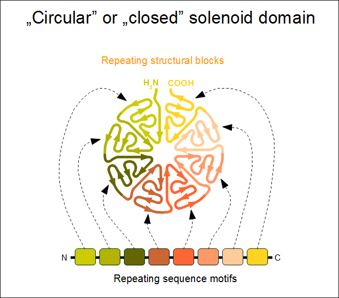 Schematic of a circular (or closed) solenoid protein domain